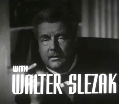 Walter Slezak in The Fallen Sparrow (1943) - trailer (cropped screenshot)